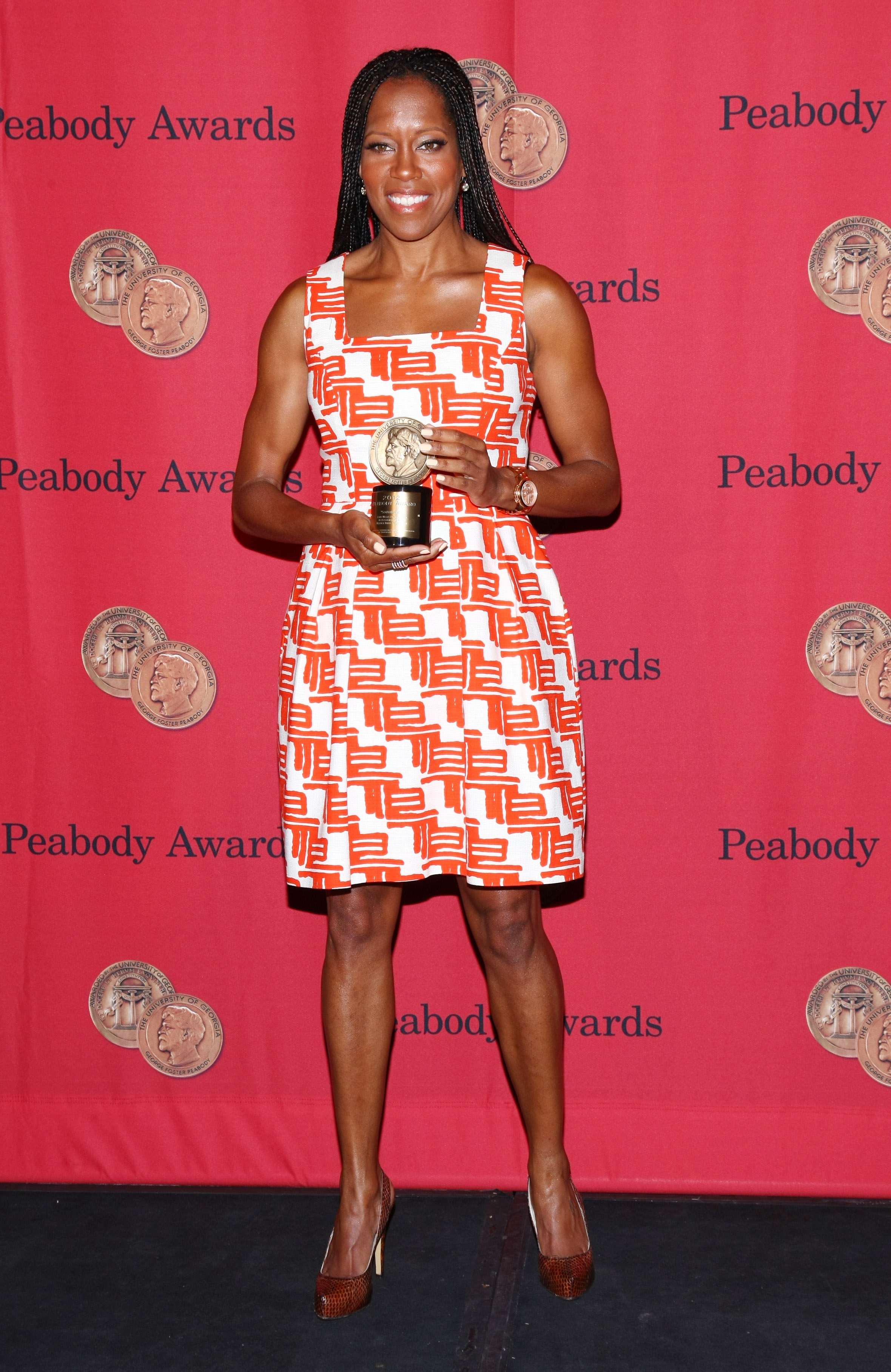 PHOTO CREDIT: ANDERS KRUSBERG / PEABODY AWARDS Regina King, 72nd Annual Peabody Awards Luncheon Waldorf-Astoria Hotel May 20, 2013